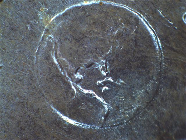 Detail from the reverse of a 1972 Eisenhower dollar, Type 4